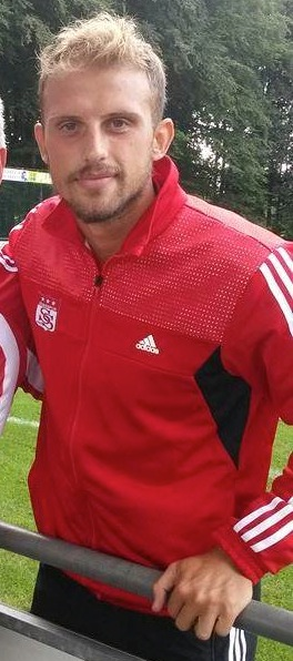 Berk Neziroğulları'nı görüntüledik.